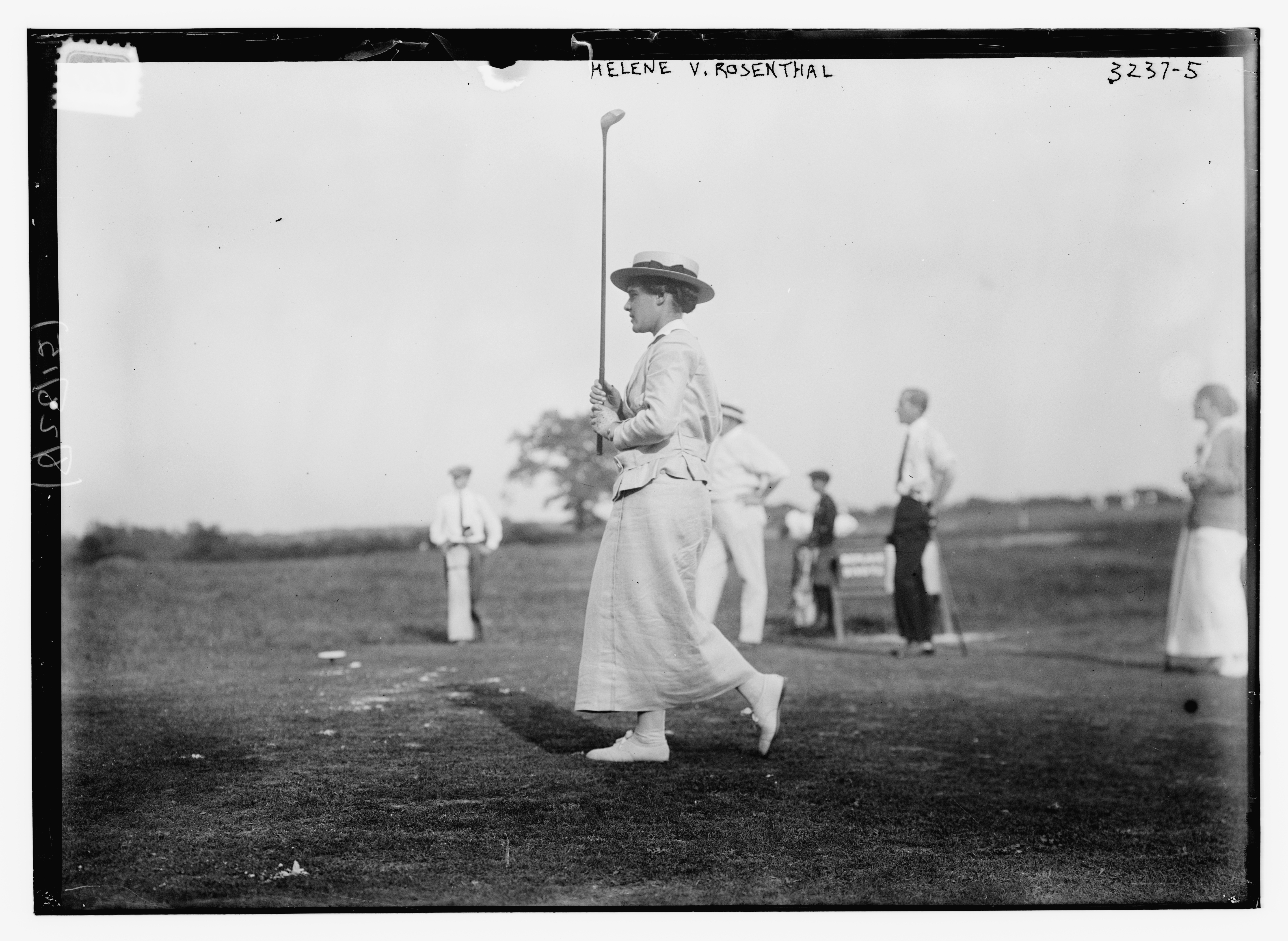 Elaine Virginia Rosenthal on August 27, 1915